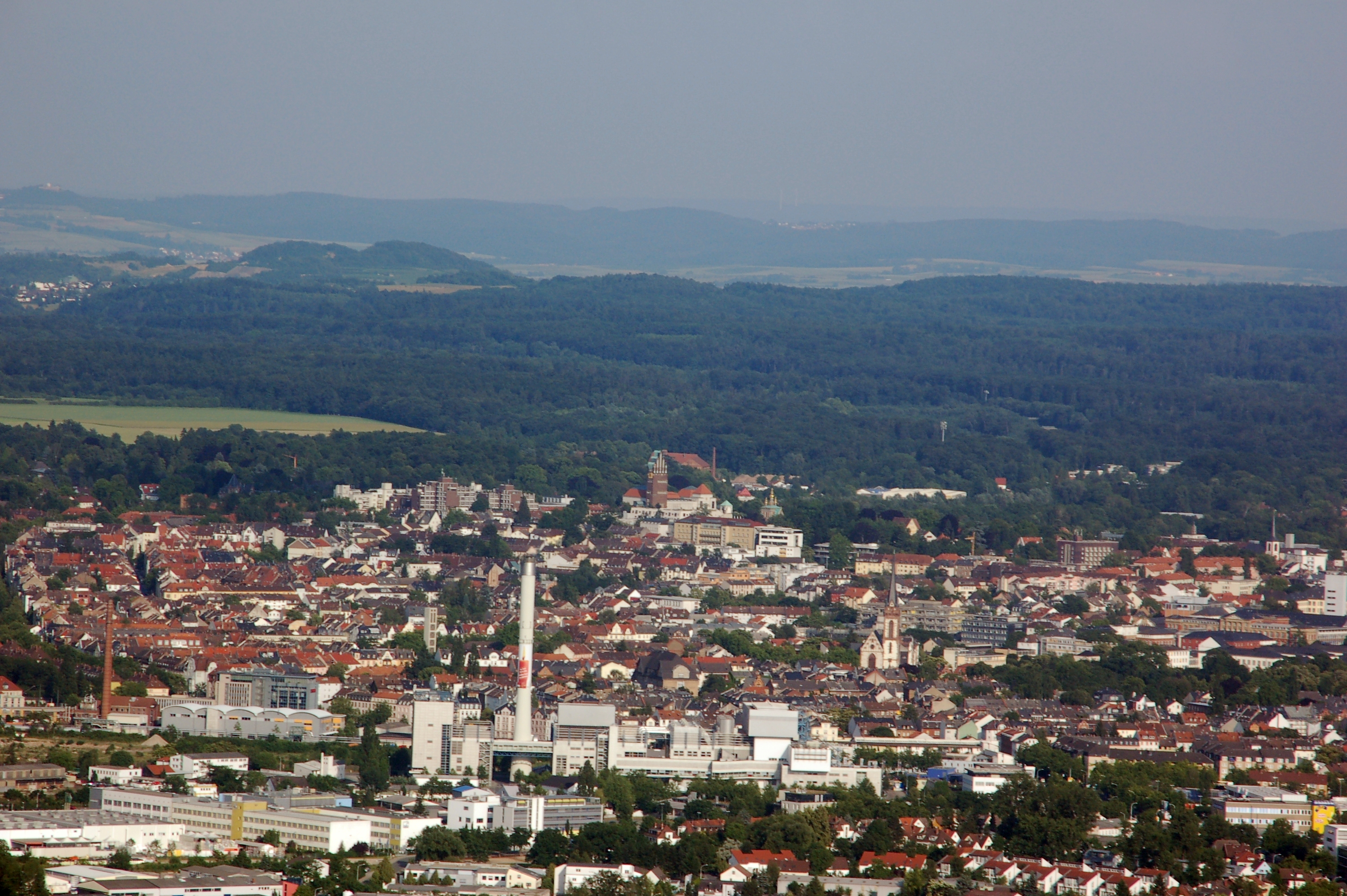 Aerial photograph of Darmstadt, Hesse, Germany